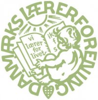 Logo of the Danish Union of Teachers (Danmarks Lærerforening)